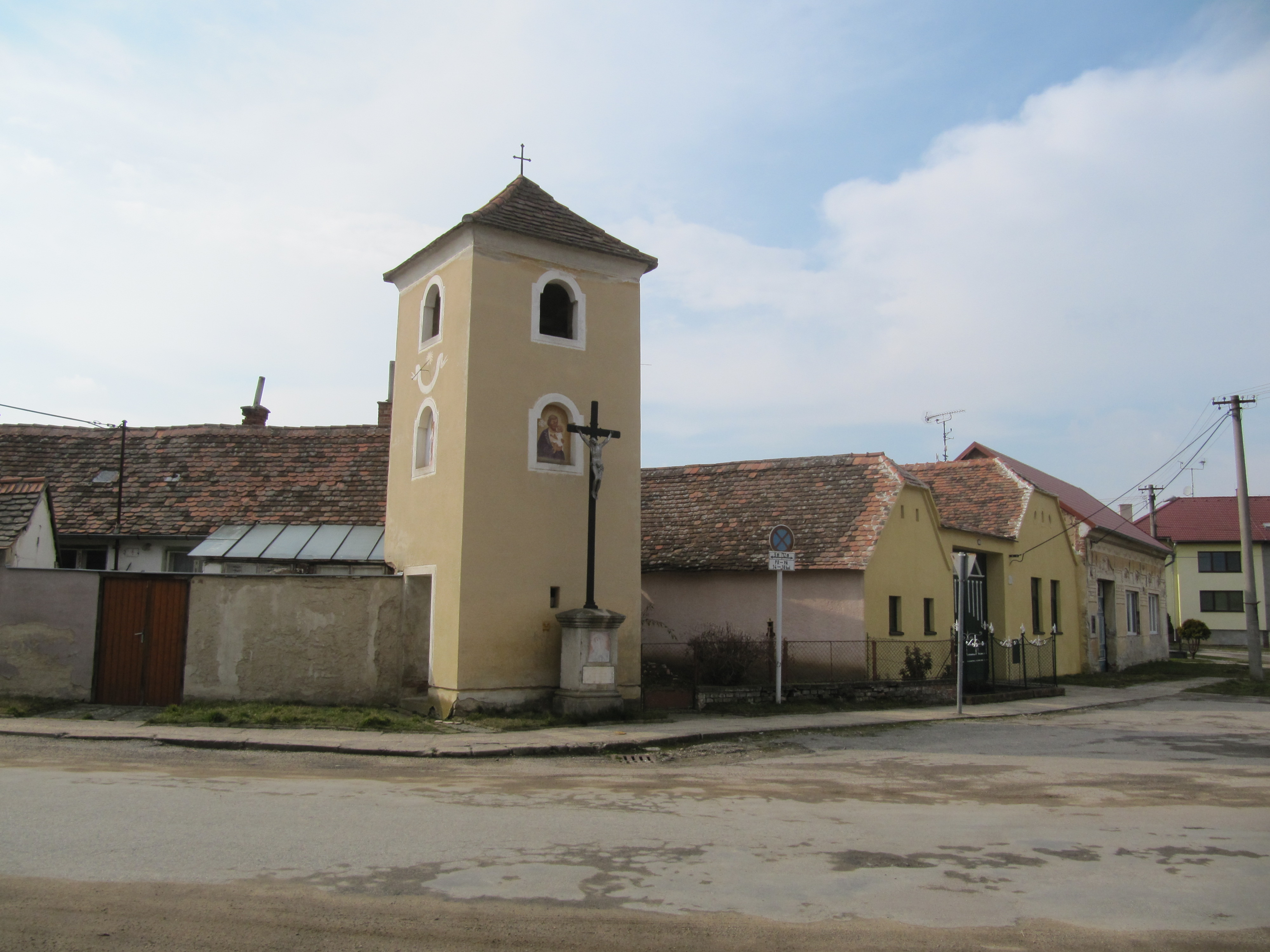 Znojmo, Czech Republic, part Mramotice.